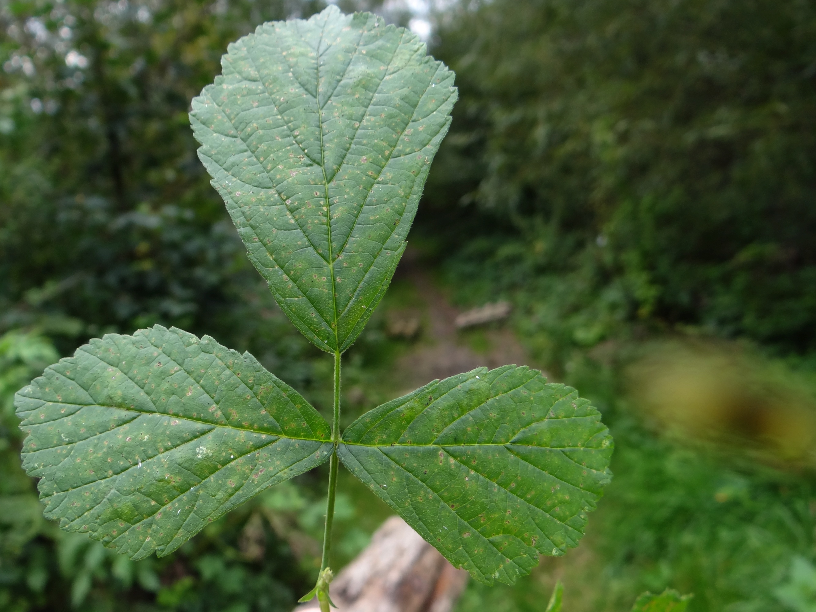 Rubus caesius (location: Poland, Łapanów)